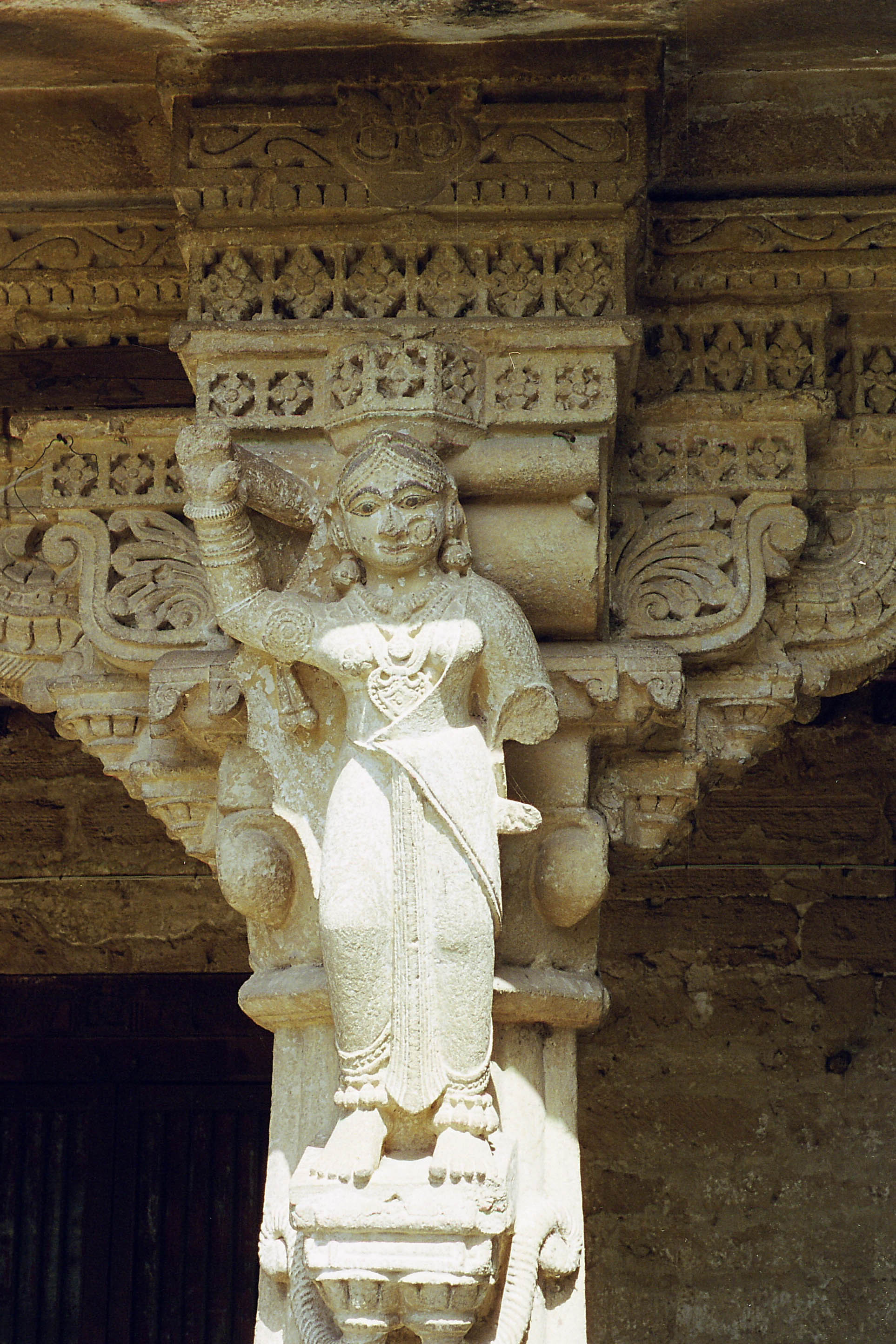 Naulakha Palace: carved pillar, Gondal, Gujarat, India